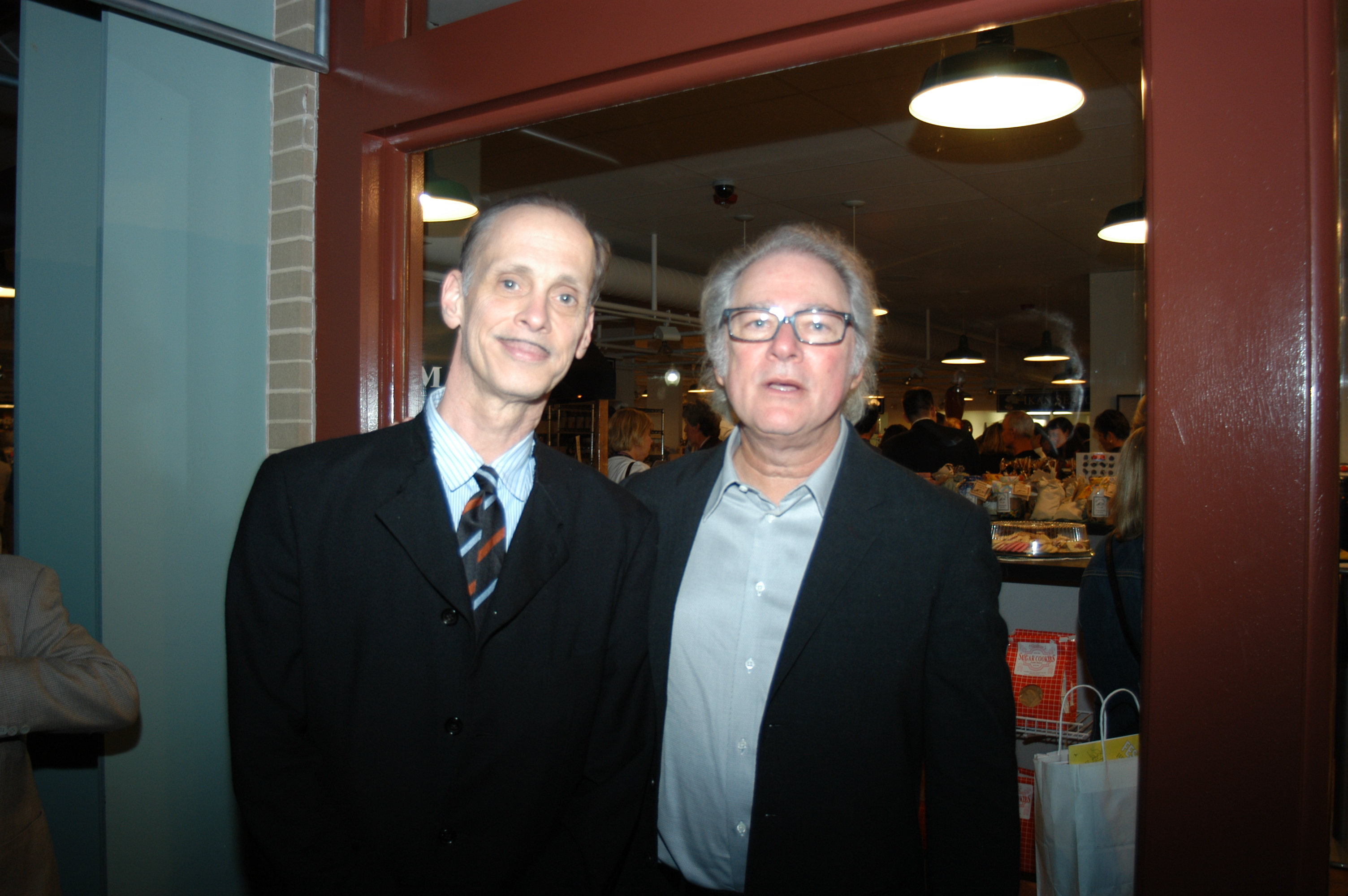 John Waters and Barry Levinson - 2003